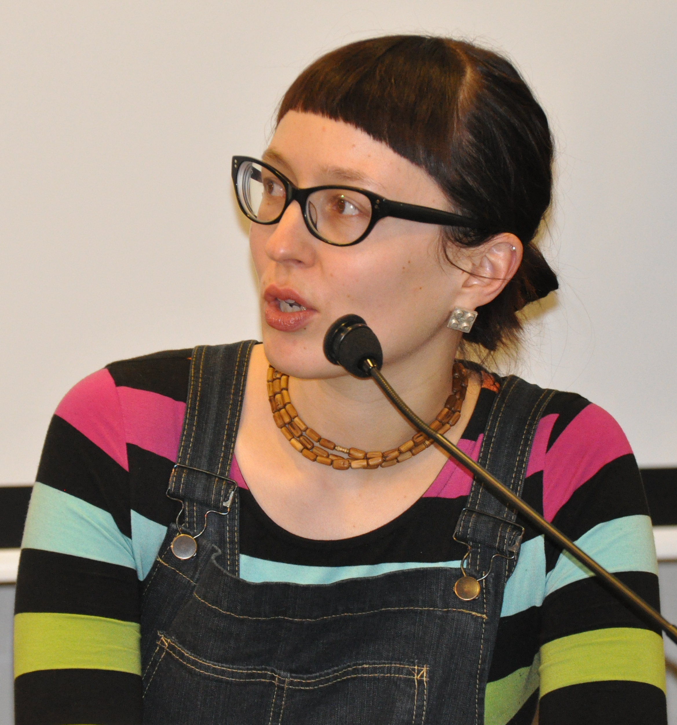 Finnish comics artist and politician Kaisa Leka at the Lahti Book Fair 2011.